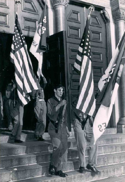 Troop 152 Scouts, Philadelphia, at Scout Sunday Service at the St Francis de Sales parish (47th & Springfield, Philadelphia), 1949